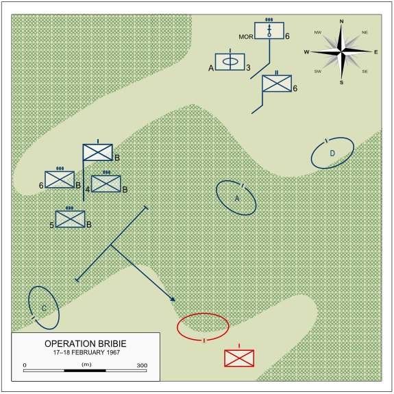 Operation Bribie, 17–18 February 1967